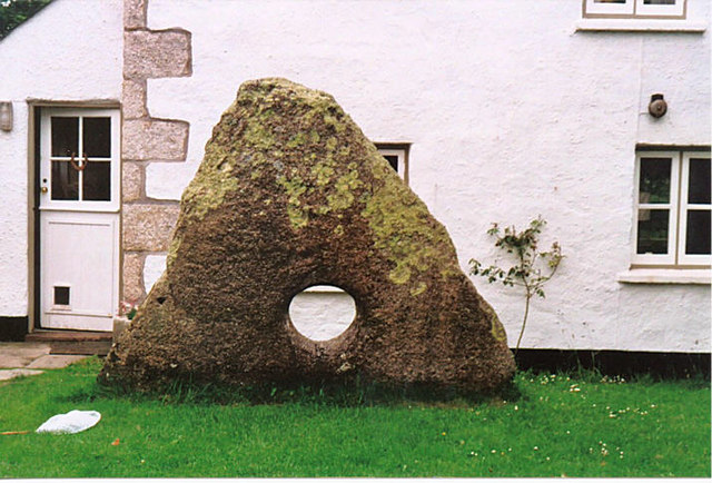 The Tolvan Holed Stone This unusual Stone is in the garden of the cottage at Tolvan Cross.The house owners are pleased to show it.